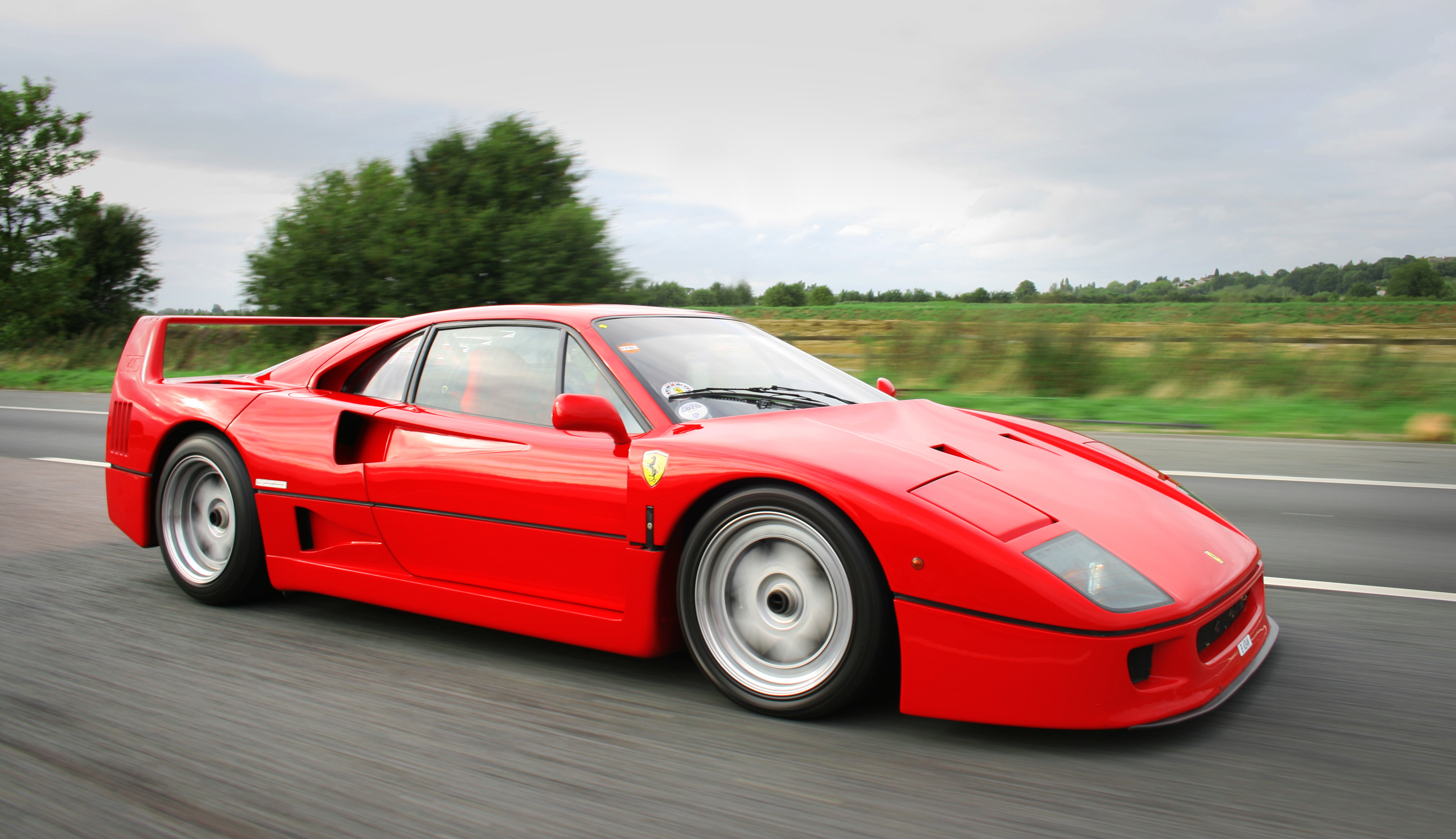 A Ferrari F40 photographed while driven on a road